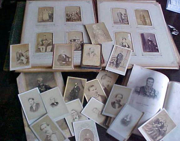 Photography and memory.